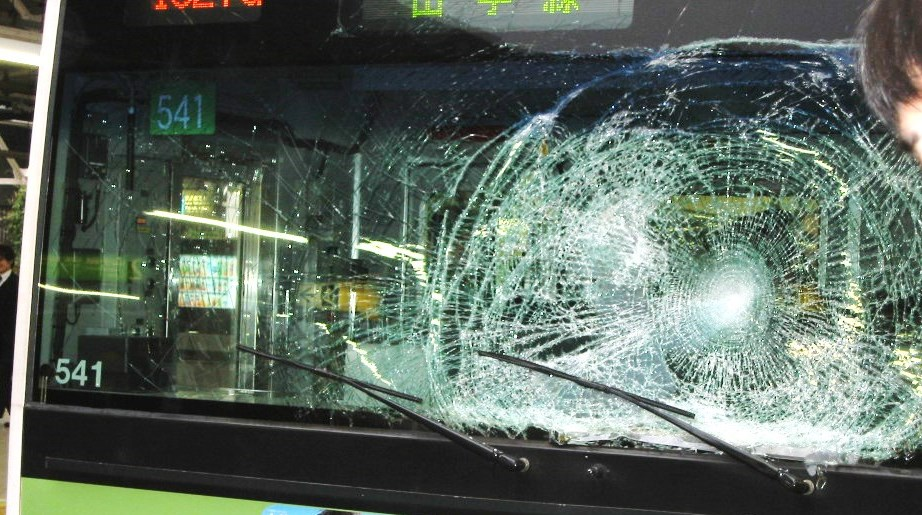 The windscreen of a JR East E231-500 series Yamanote Line EMU at Ueno Station shattered after a person jumped in front of it